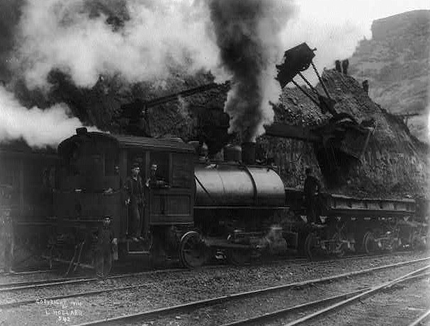 Dinkey engine and steam shovel